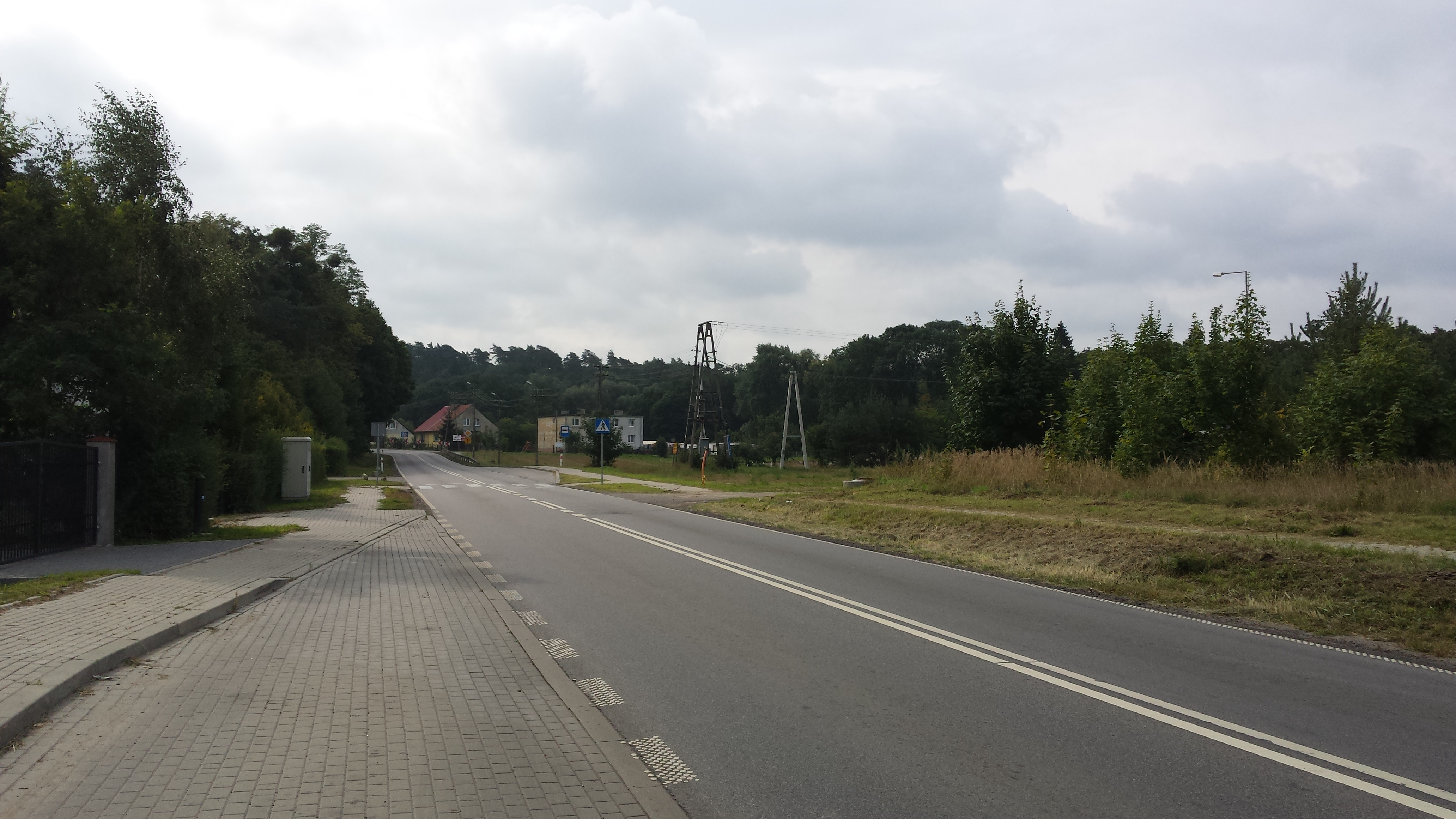 Marusza - voivodeship road 534